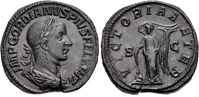 Gordian III. AD 238-244. Æ Sestertius (31mm, 20.92 g, 12h). Rome mint, 5th officina. 13th emission, AD 244. Laureate, draped, and cuirassed bust right Victory standing left, holding palm frond and shield set on captive seated left. RIC IV 337a; Banti 105.